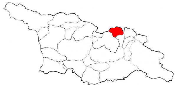 Map of Khevi, historical region of Georgia